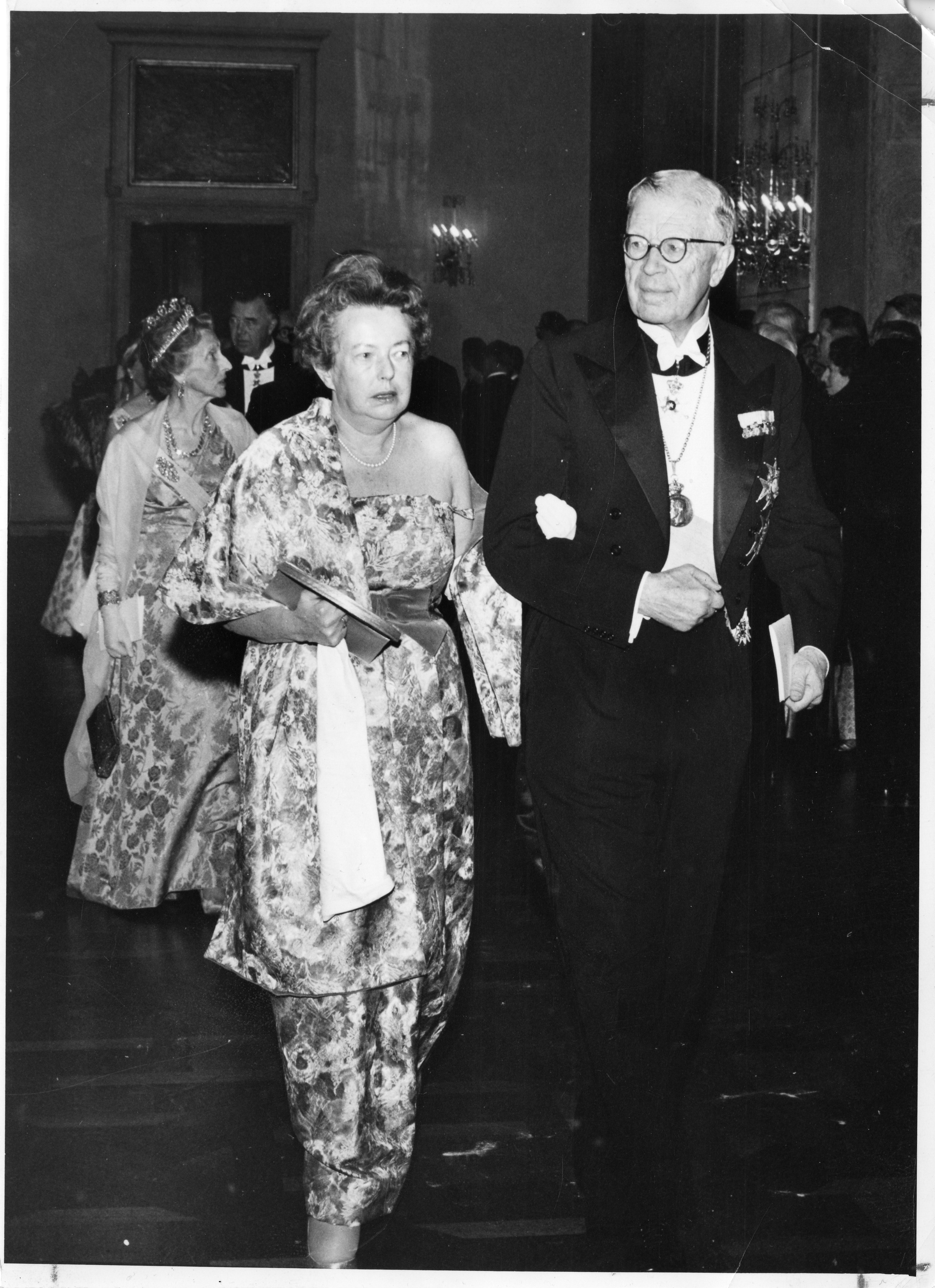 Description: This photo was taken in 1963, as physicist Maria Goeppert-Mayer (1906-1972) was being escorted by King Gustav Adolf of Sweden to a gala banquet following the ceremony during which she received the Nobel Prize in physics for development of the model of atomic nuclei in which the orbits of protons and neutrons are arranged in concentric "shells". Creator/Photographer: Unidentified photographer Medium: Black and white photographic print Date: 1963 Persistent URL: Repository: Smithsonian Institution Archives Collection: Accession 90-105: Science Service Records, 1920s – 1970s - Science Service, now the Society for Science & the Public, was a news organization founded in 1921 to promote the dissemination of scientific and technical information. Although initially intended as a news service, Science Service produced an extensive array of news features, radio programs, motion pictures, phonograph records, and demonstration kits and it also engaged in various educational, translation, and research activities. Accession number: SIA2008-1866